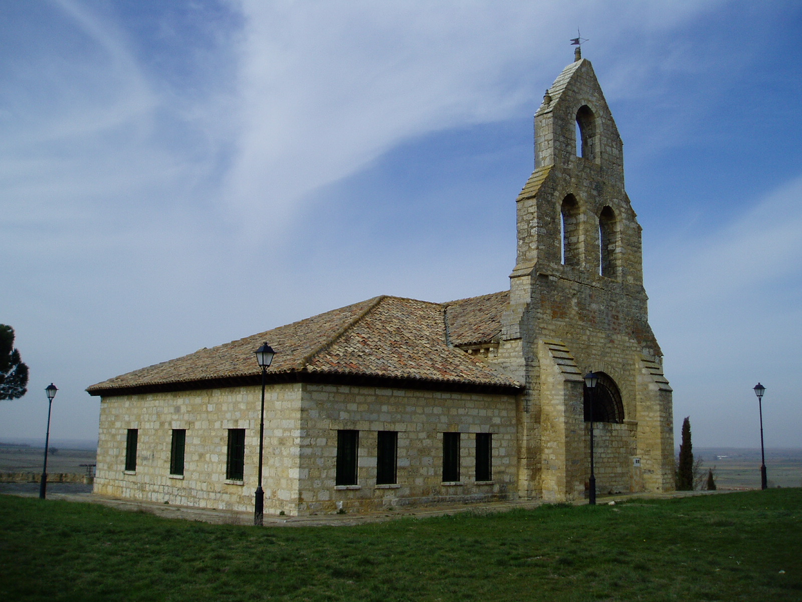 Church of the Peregrins Hospital, in Támara de Campos, Palencia.